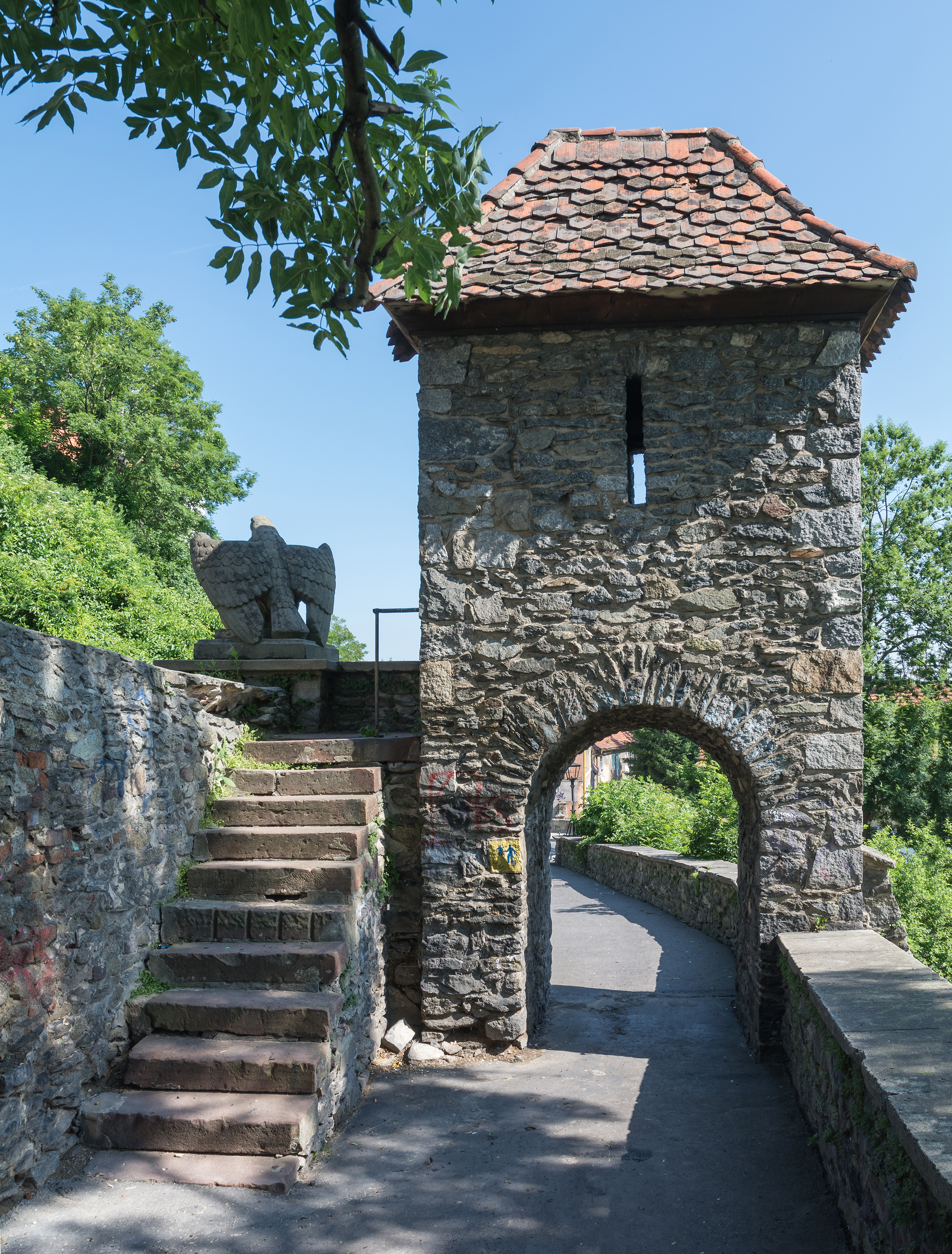 Lower Gate in Niemcza